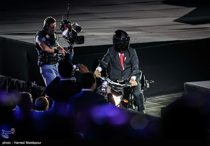 2018 Asian Games opening ceremony